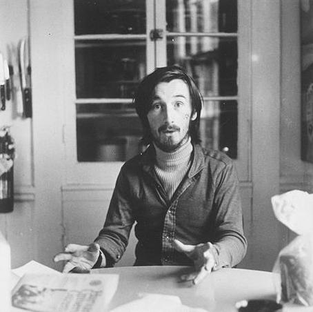 Portrait of Victor Bockris.